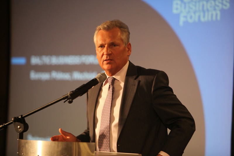 Aleksander Kwaśniewski, Baltic Business Forum 2013